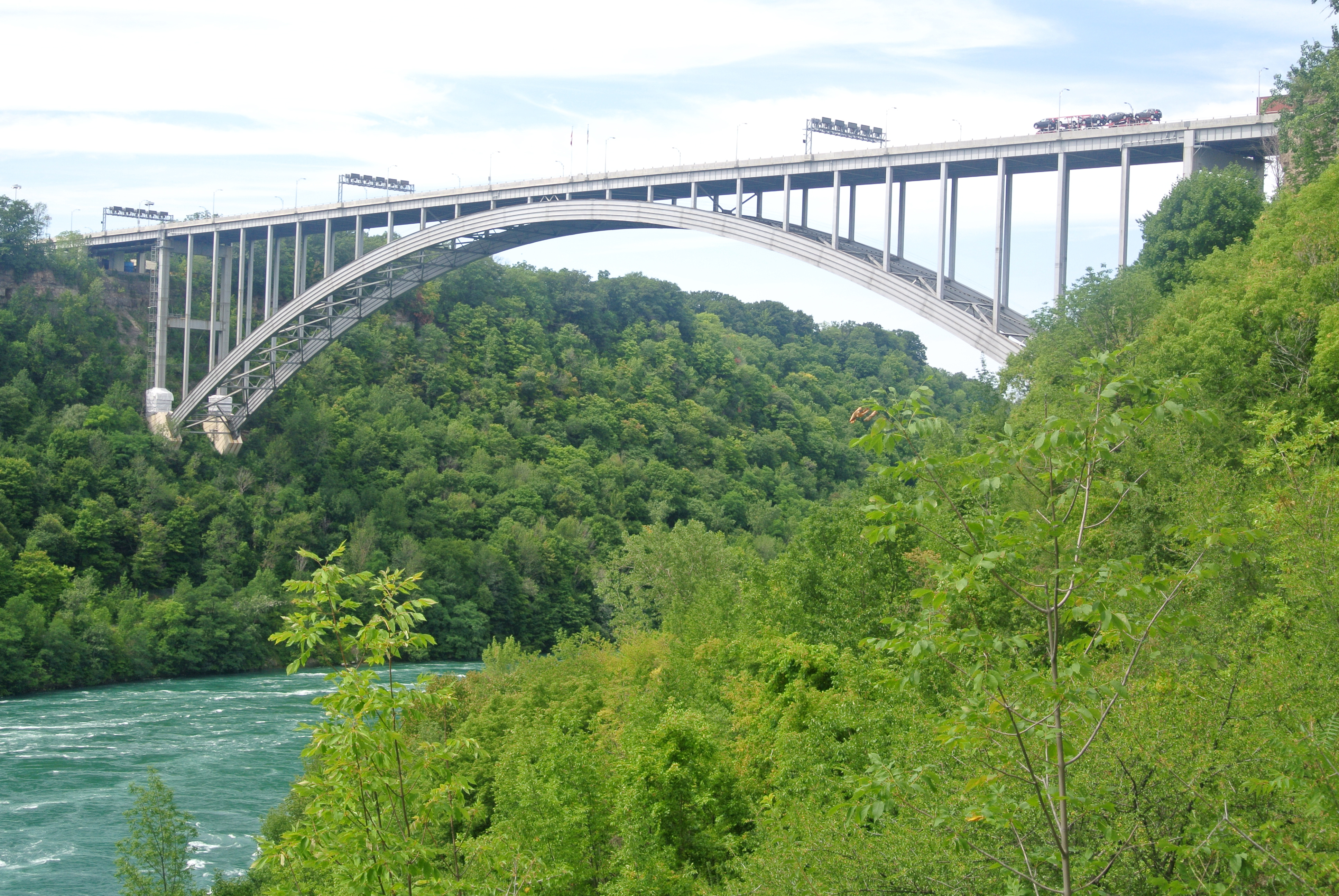 Lewiston-Queenston Bridge from Niagara Gorge, Niagara County, New York.